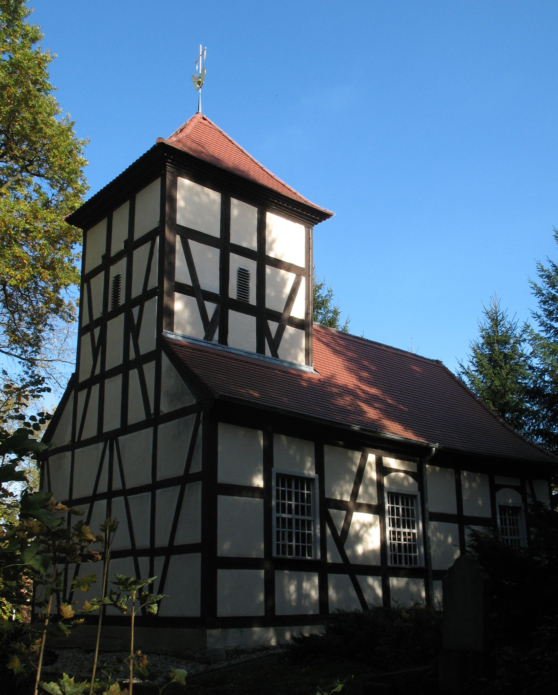 Church in Schwielowsee-Ferch in Brandenburg, Germany